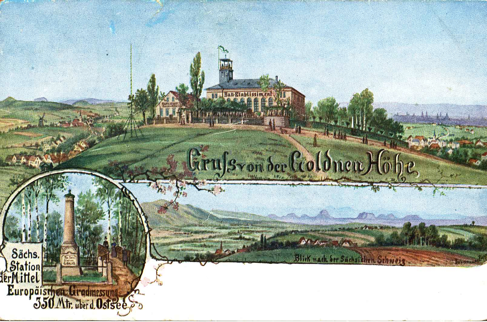 Famous Restaurant Goldene Höhe near Dresden, Saxony